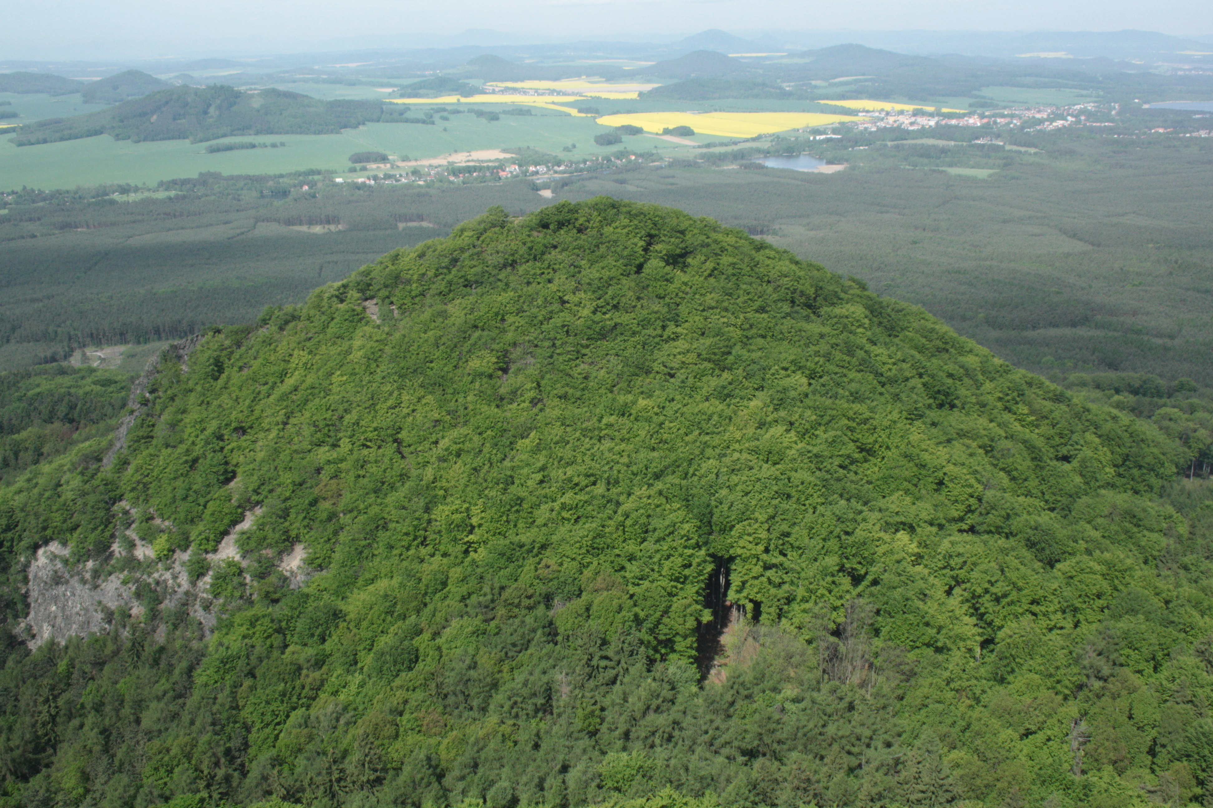 National nature reserve Velký a Malý Bezděz, Česká Lípa District, Liberec Region, Czech Republic This photograph was taken with a DSLR from WMCZ's Camera grant. Project: Fotíme Česko